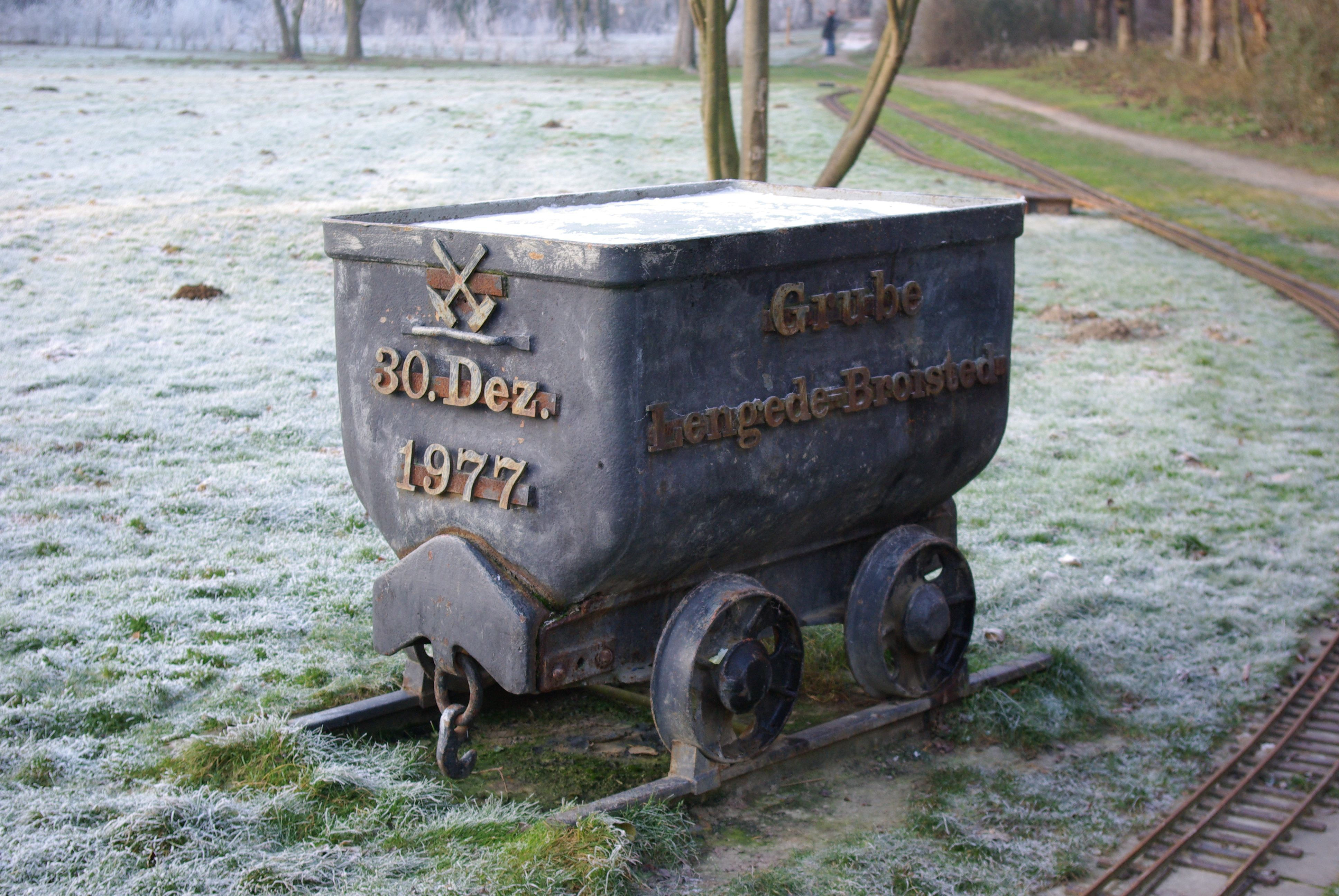 Mining cart in Lengede, Lower Saxony, Germany.